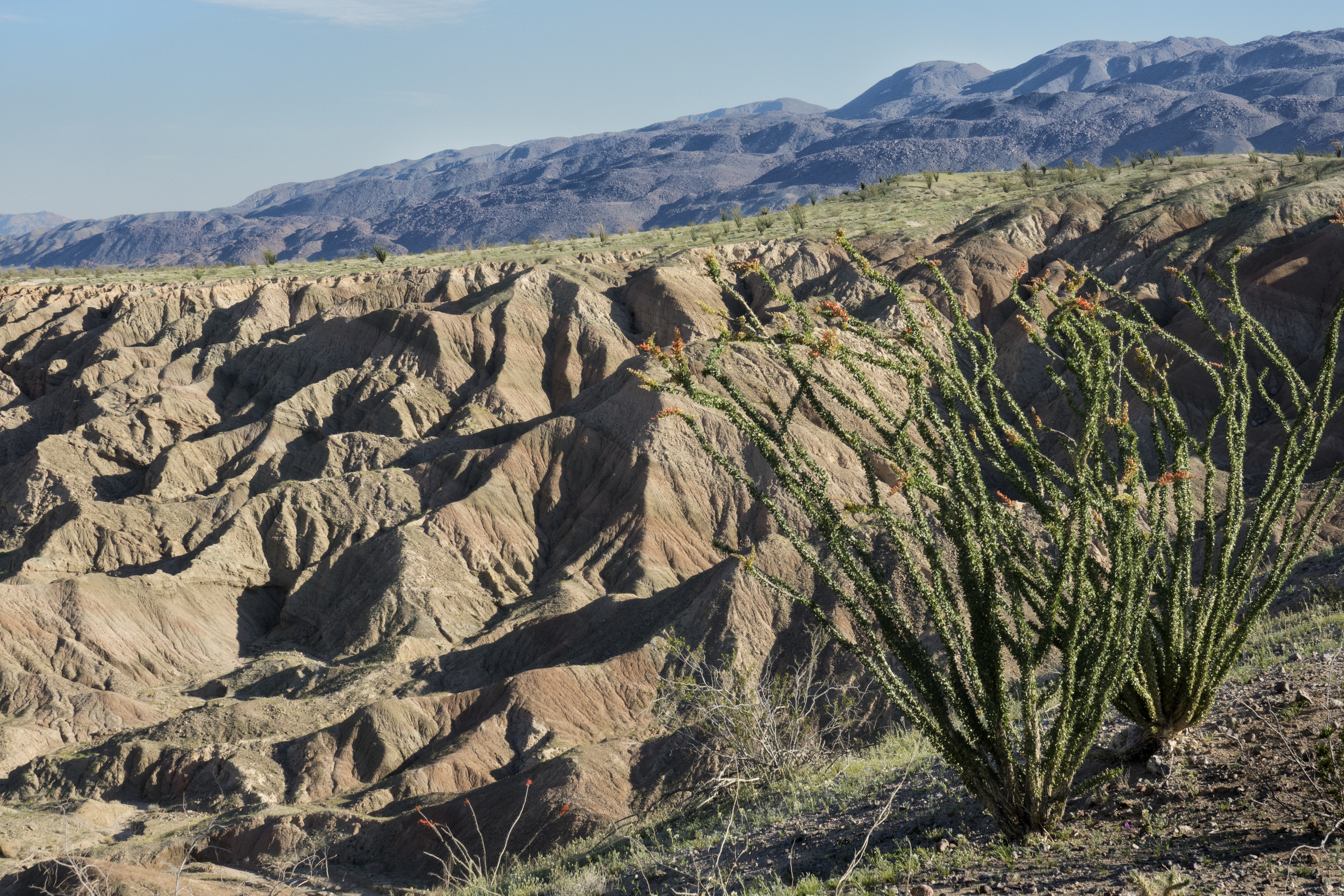 Erosion in Anza-Borrego